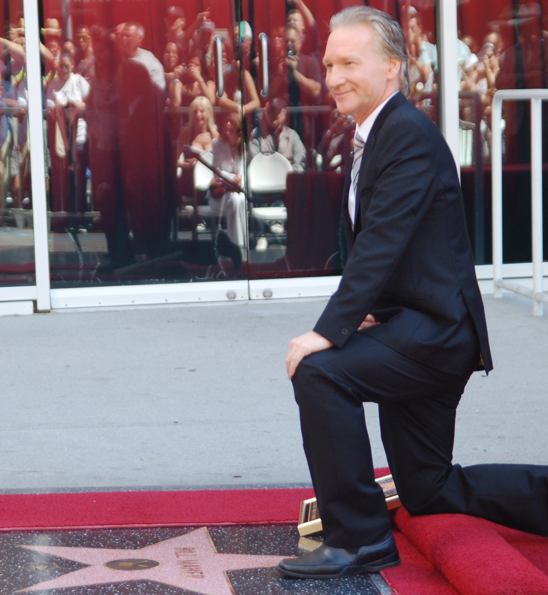 Bill Maher next to his star at a ceremony on the Hollywood Walk of Fame.